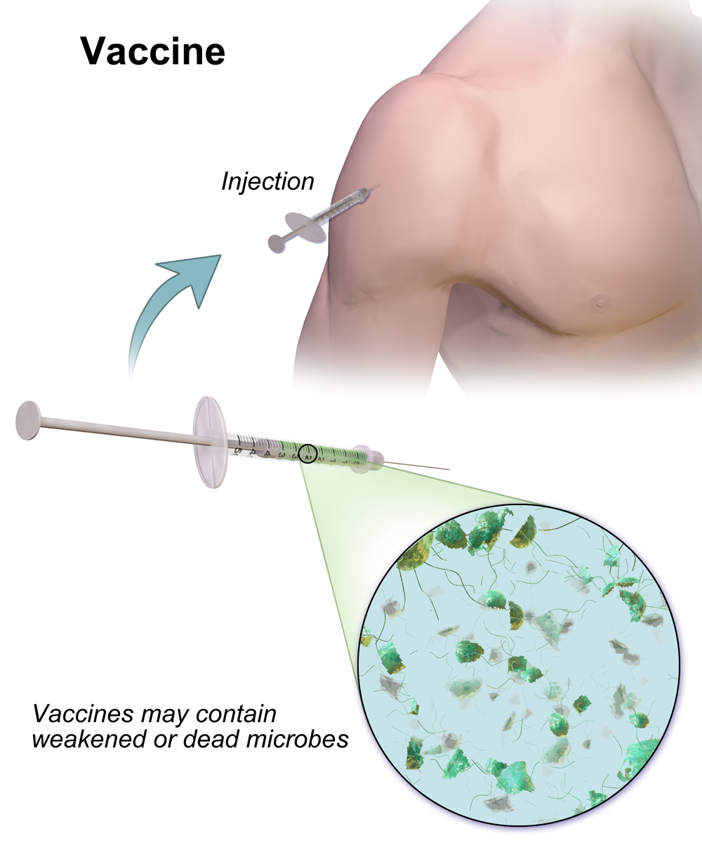 Vaccine. See a full animation of this medical topic